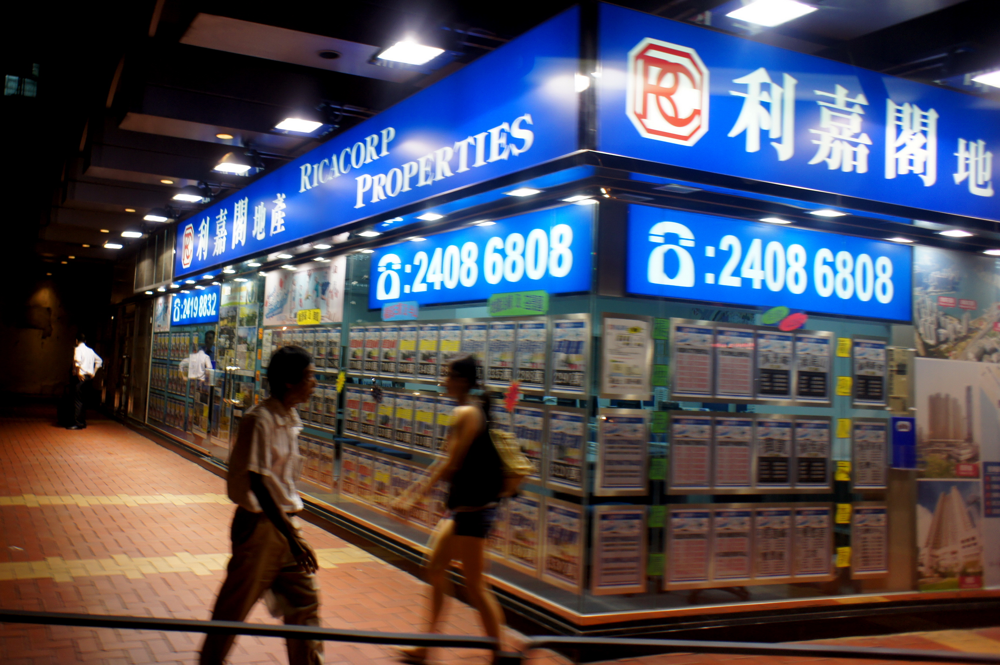 A branch of Ricacorp Properties at Tai Ho Road, Tsuen Wan, Hong Kong.